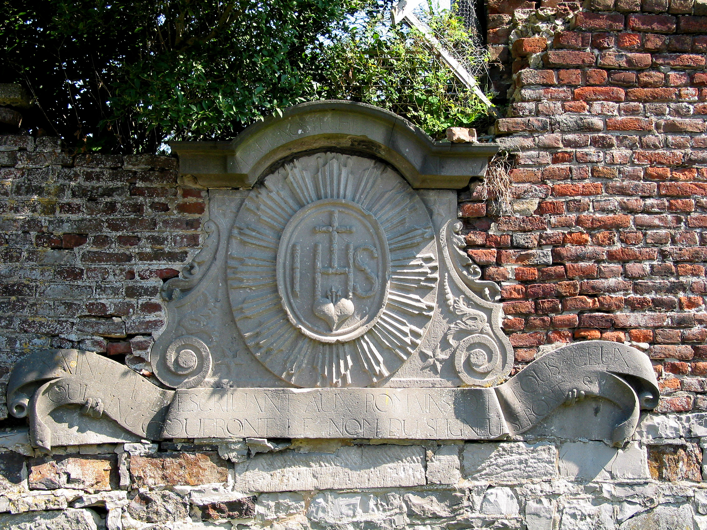 Loyers (Belgium), carved stone with the Christogram IHS.